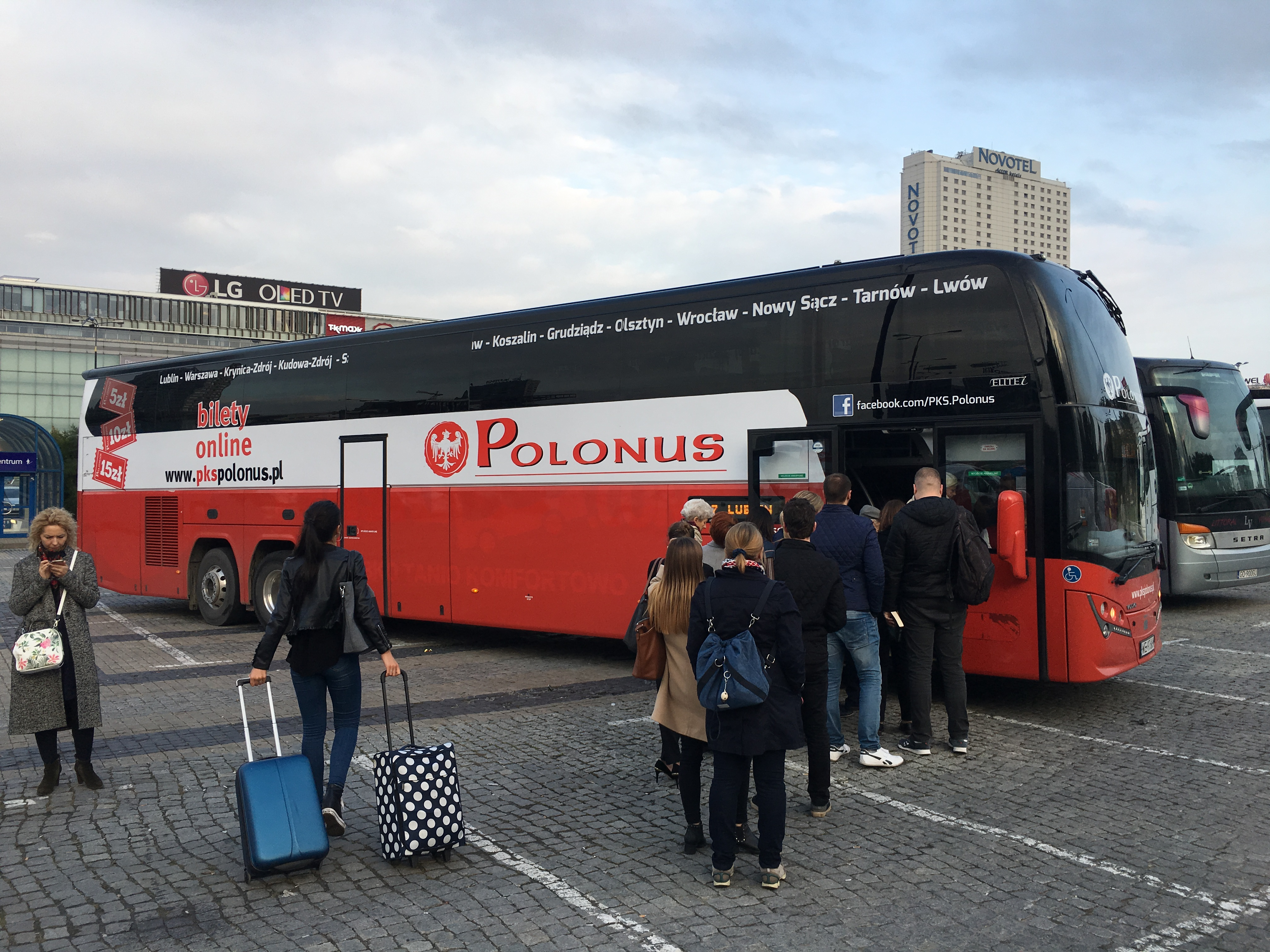 Bus stop at the Defilad Square in Warsaw